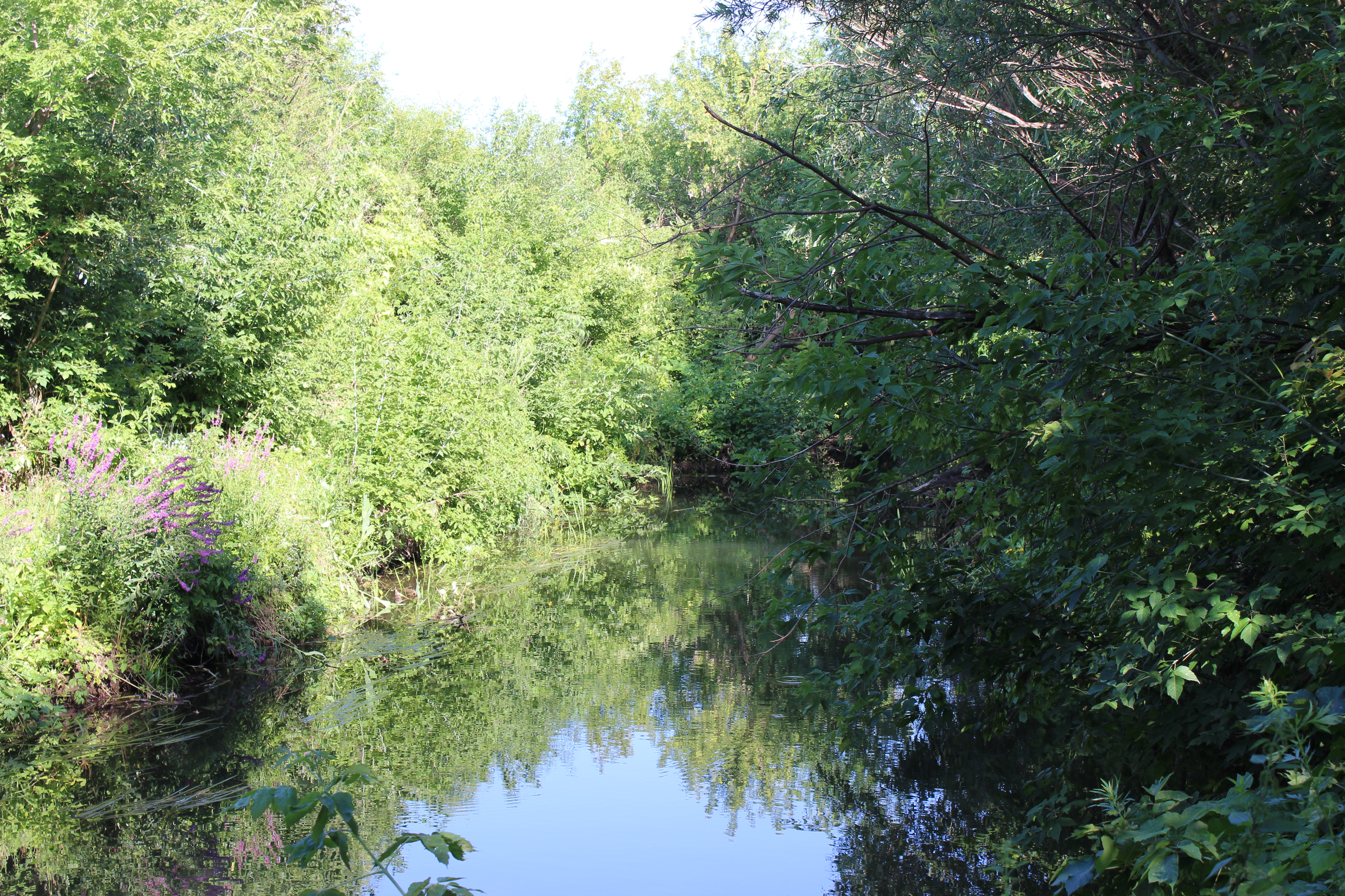 Kuganak river (Sterlitamak rayon, Republic of Bashkortostan, Russia)